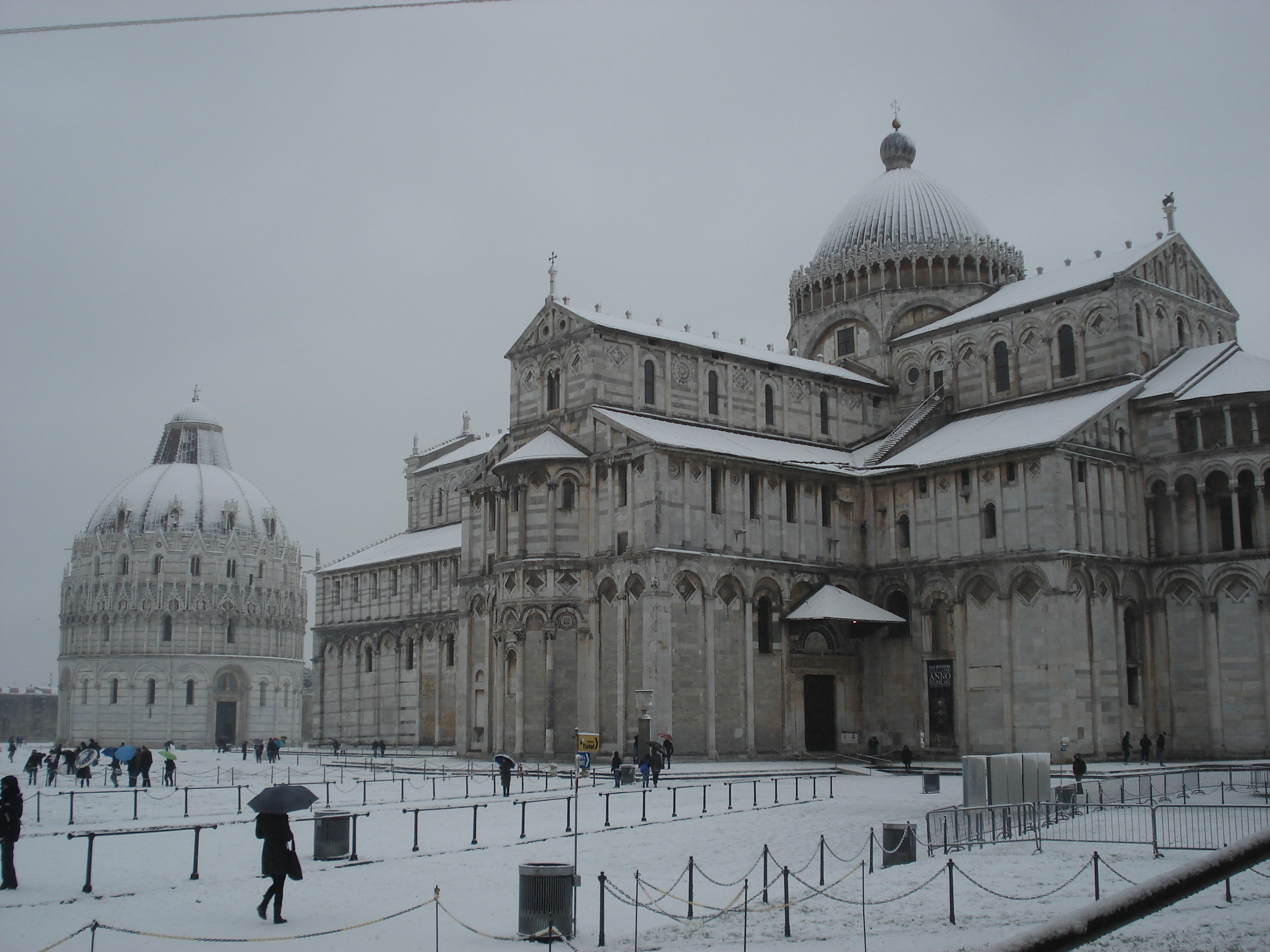 Pisa, Piazza dei Miracoli.